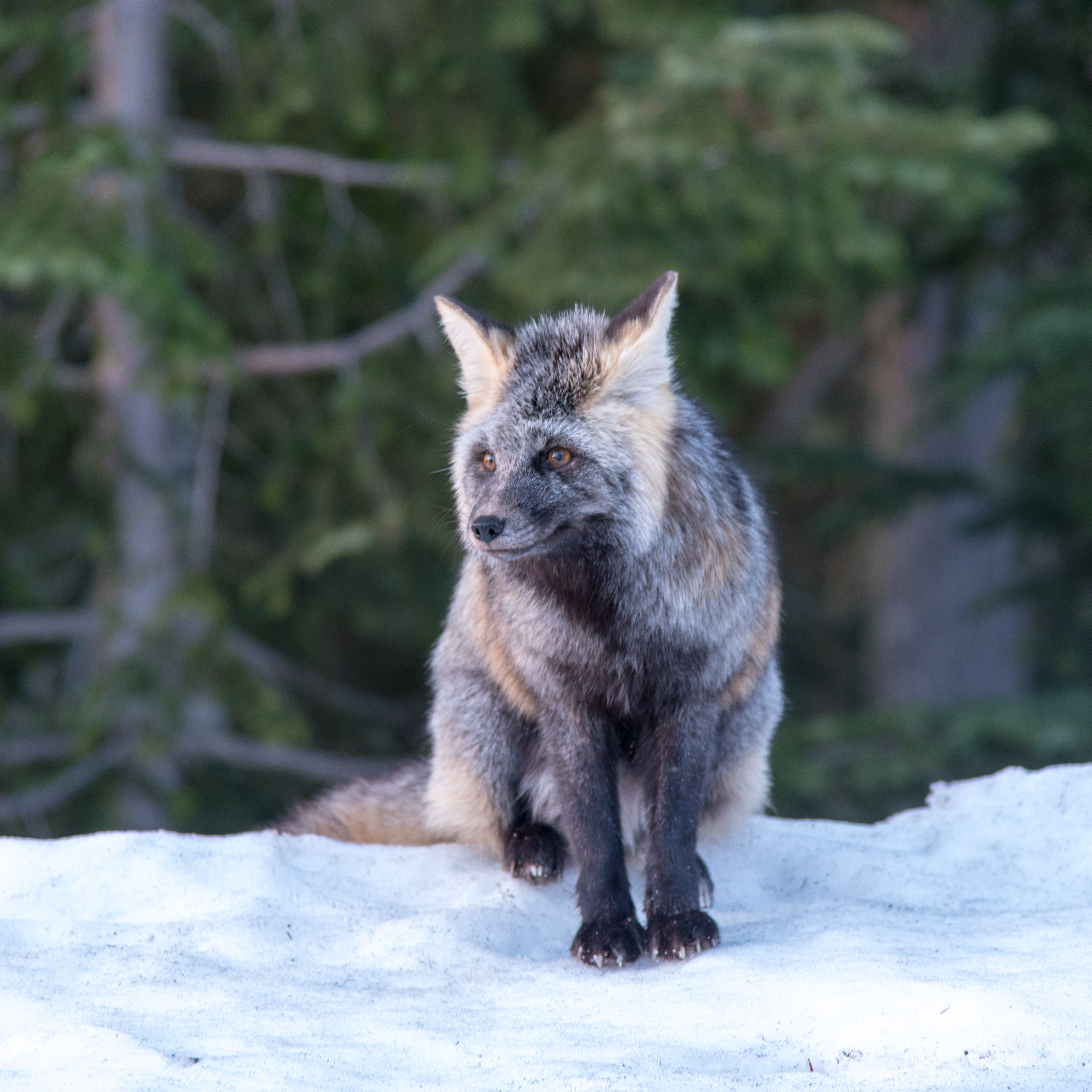 A Cascade Red Fox watching the tourists from the side of the road at Mount Rainier National Park